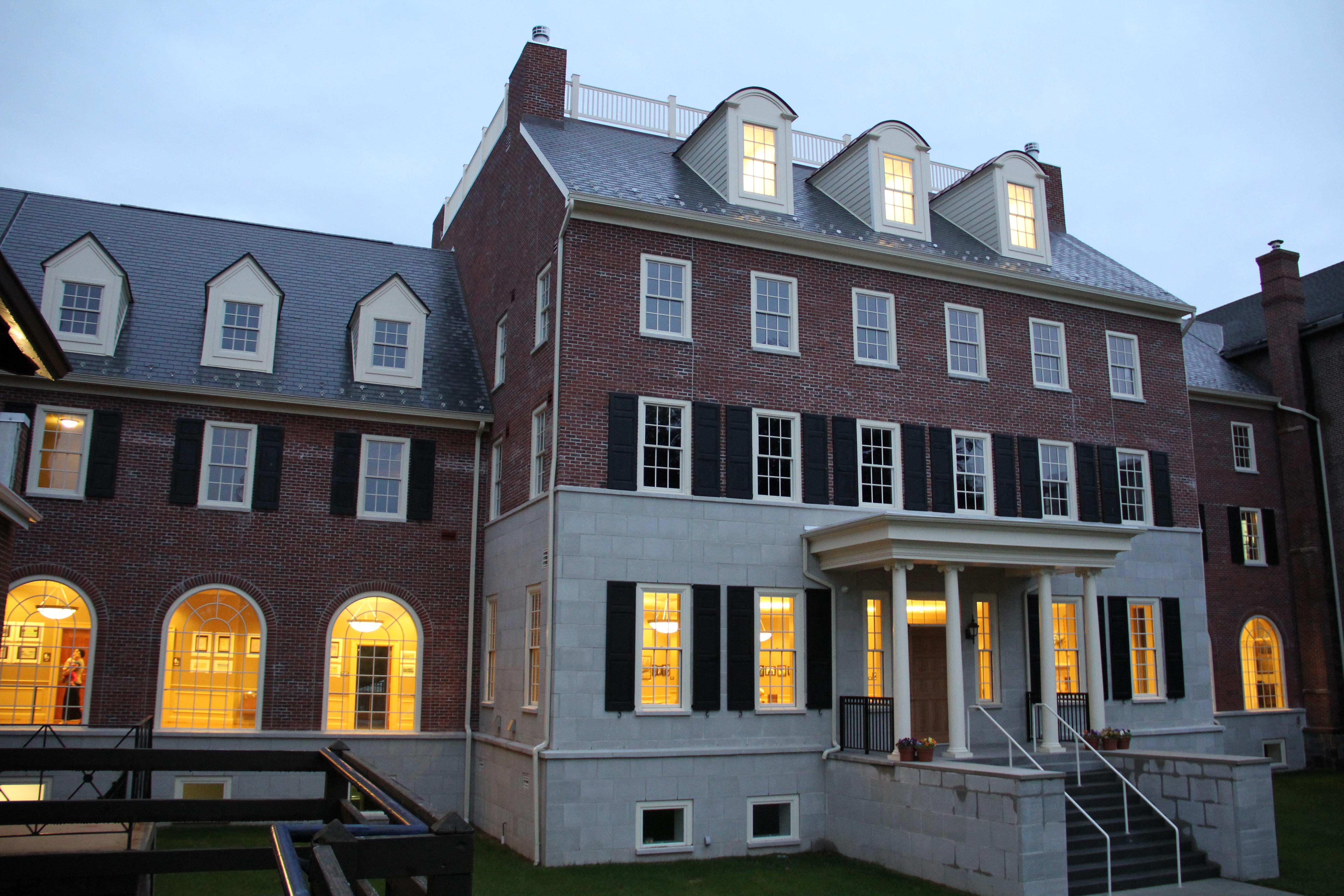 Rowan Hall (2015) standing at the center of the campus, home to a dozen state-of-the-art classrooms, outwardly replicates the appearance of the original school building as it looked in 1837.